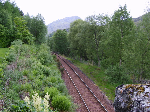 Railway Line At Fersit. Easain's ridge in shot